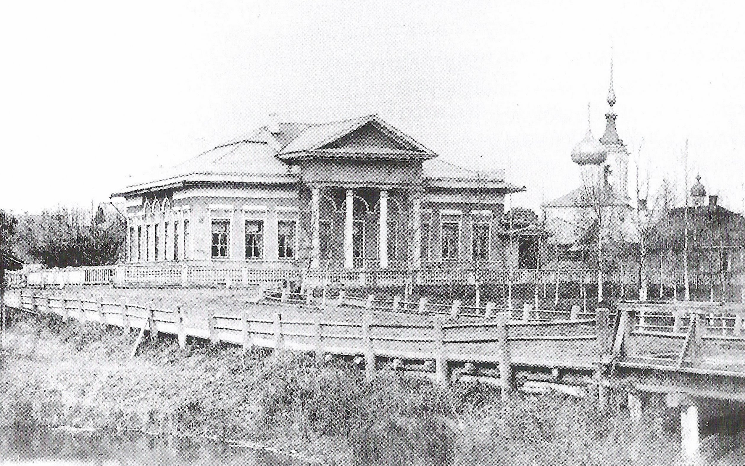 Zasetzkys_House_Vologda_end_19_century